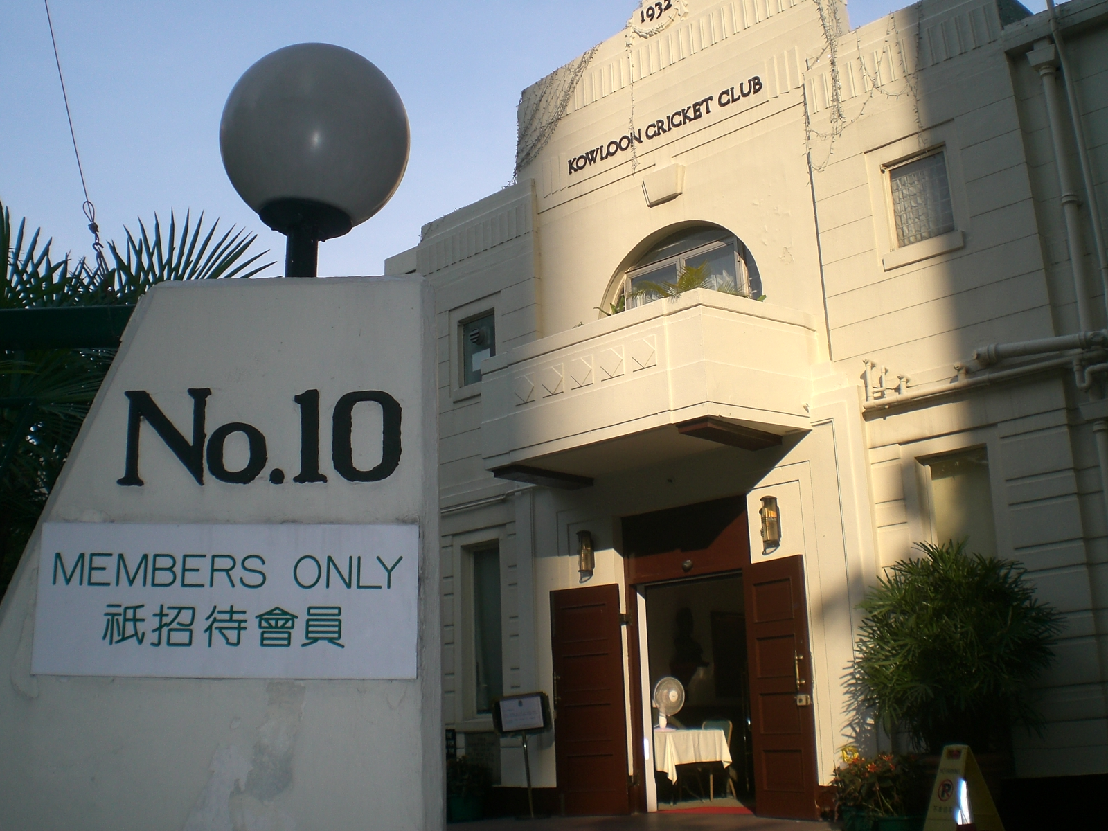 九龍木球會, 佐敦, Kowloon Cricket Club, Cox's Road, 覺士道